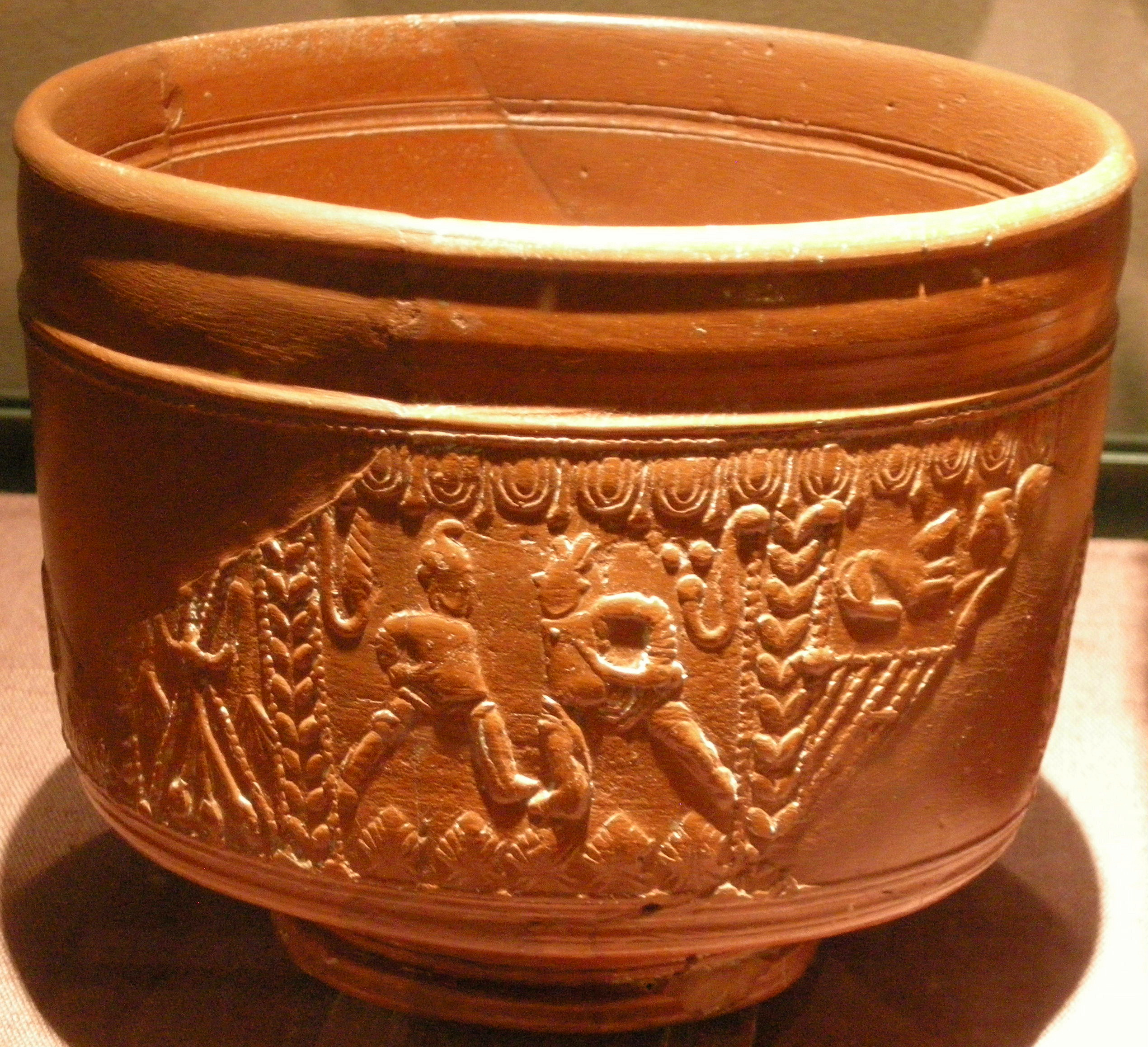 Roman Museum in Butchery Lane, Canterbury, Kent. Samian Ware pot showing gladiators.